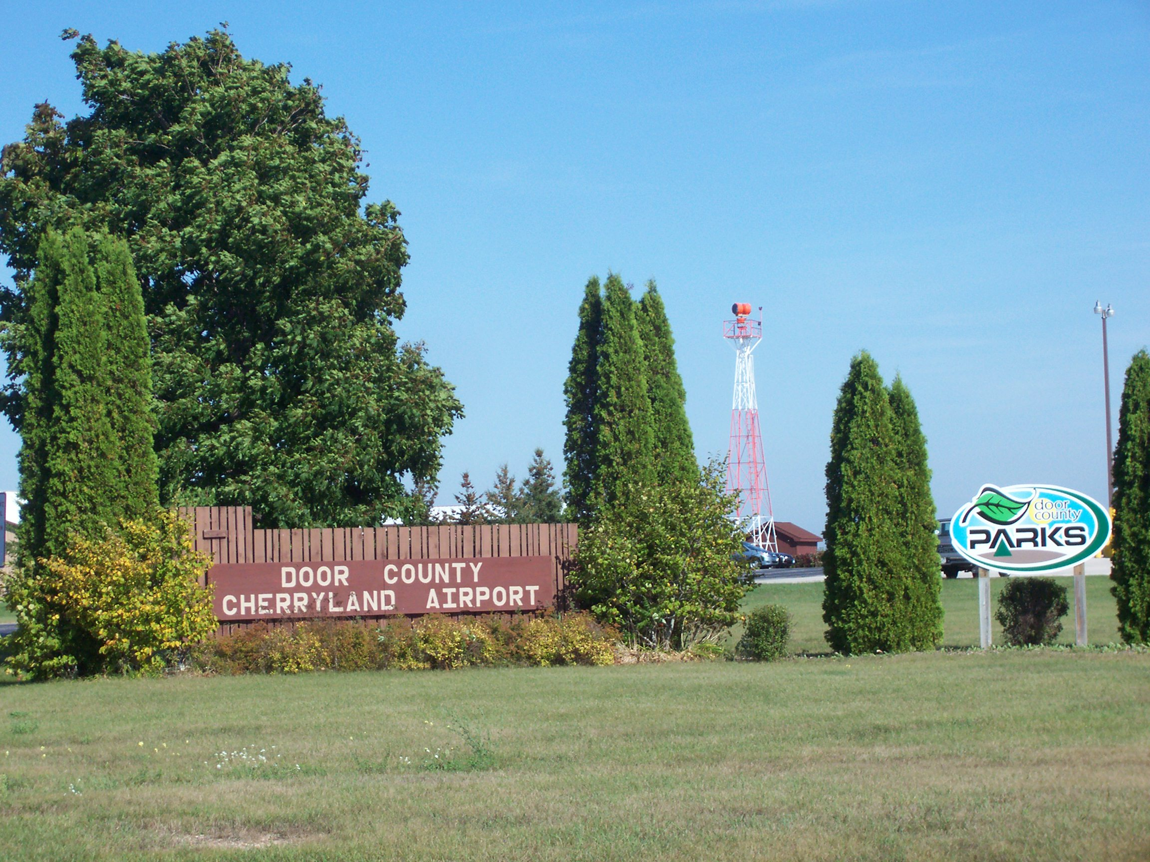 The sign for Door County Cherryland Airport several miles west of Sturgeon Bay, Wisconsin